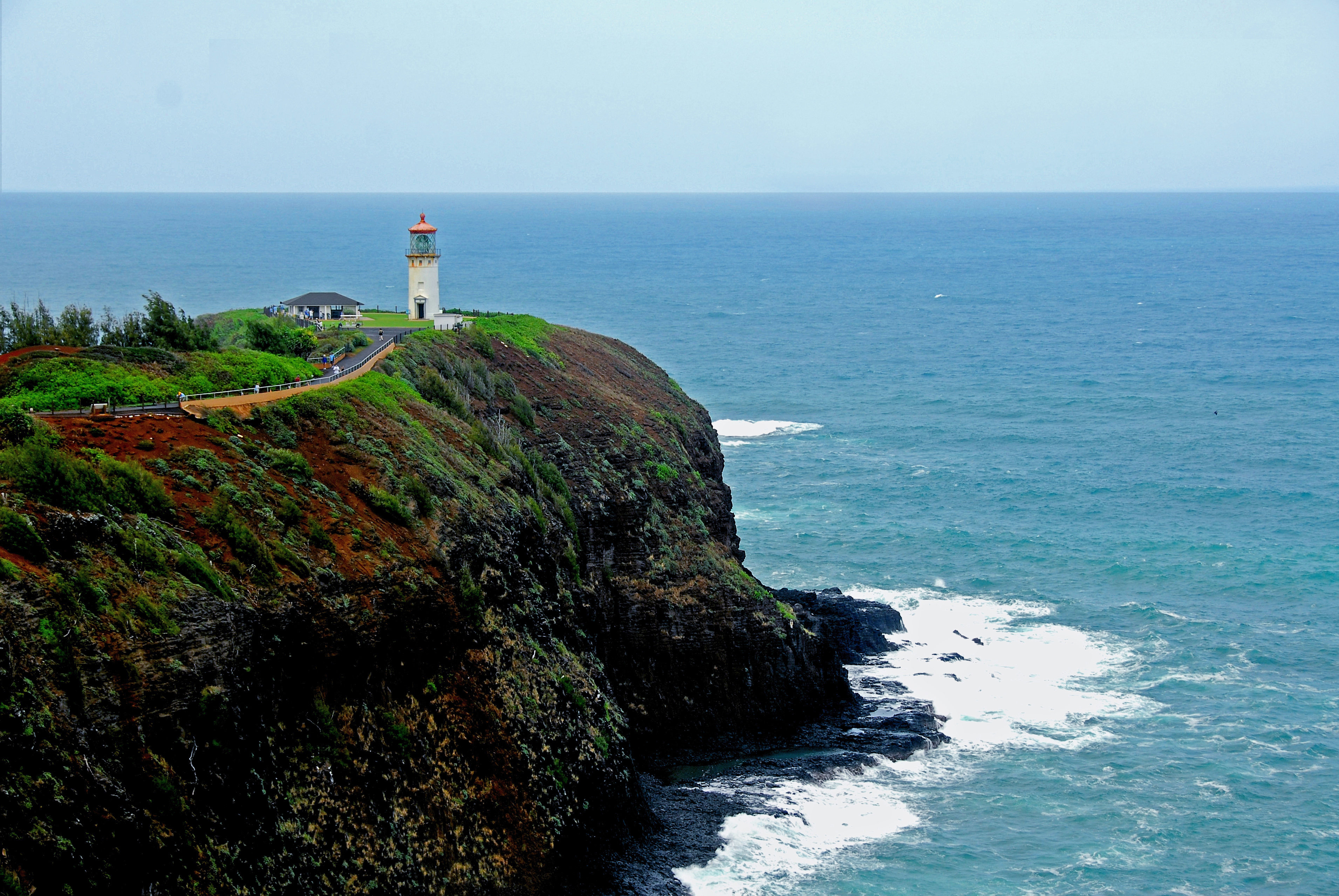 KAUAI, Hawaii) -- Kilauea Lighthouse is seen from a designated lookout point, Wednesday, Oct. 29, 2008. Kilauea Lighthouse has been a beacon for mariners since 1913. It served as a pivotal navigation aid for ships sailing on the Orient run. The historic light station consists of a concrete lighthouse, three field stone keepers' quarters, a fuel oil shed, cisterns, and a supply-landing platform. It is one of the nation's most intact historic light stations.